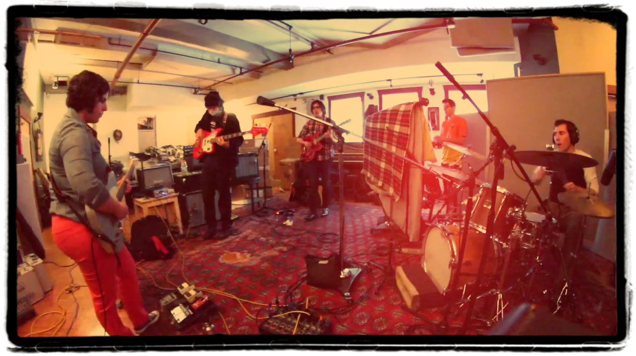 Aloud recording It's Got To Be Now at Mad Oak Studios. The vast majority of the album would be recorded live in this configuration. (L to R: Jen de la Osa, Charles Murphy, Henry Beguiristain, Andy Wong, Frank Hegyi.)